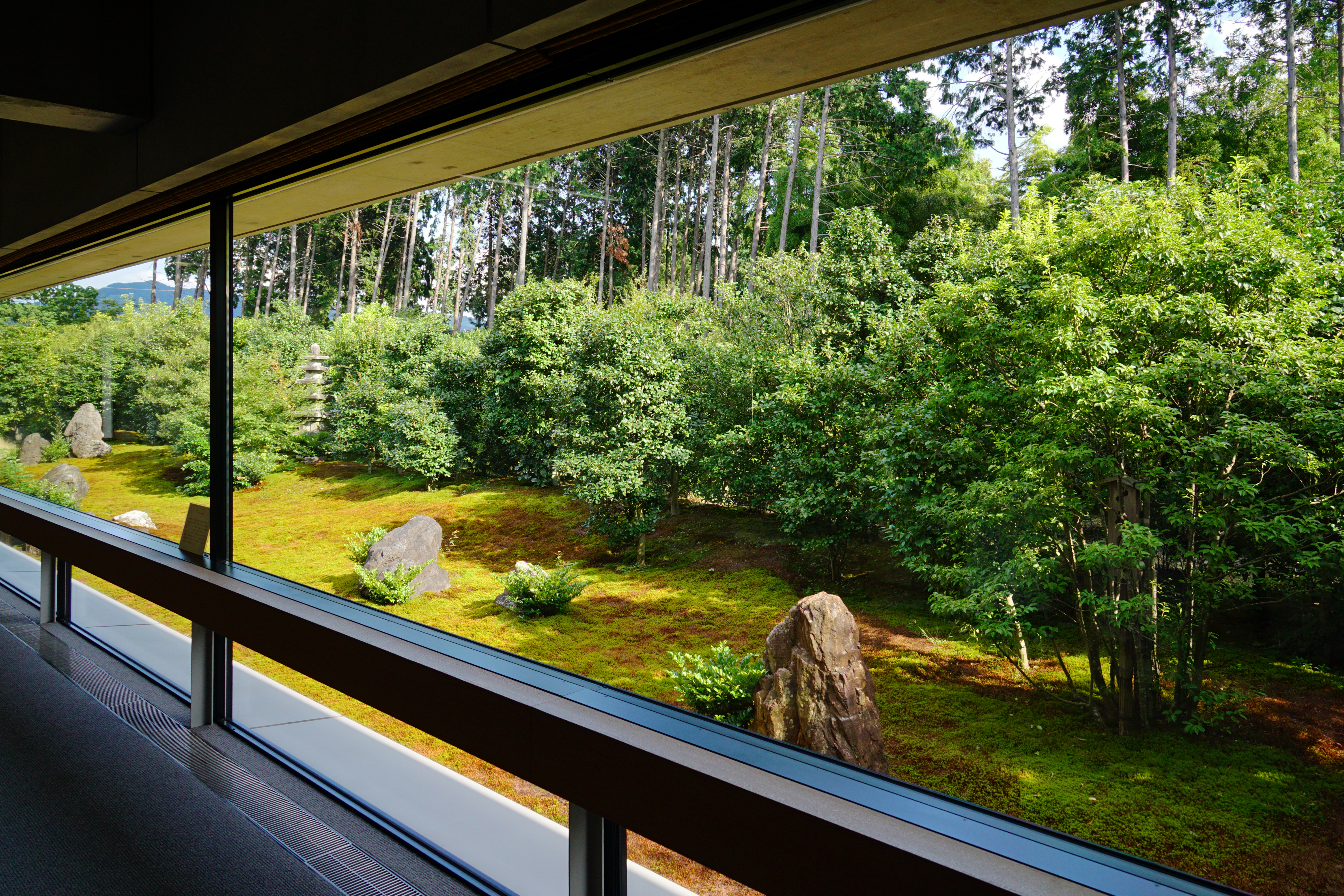 Jotenkaku Museum in Kyoto, Kyoto prefecture, Japan